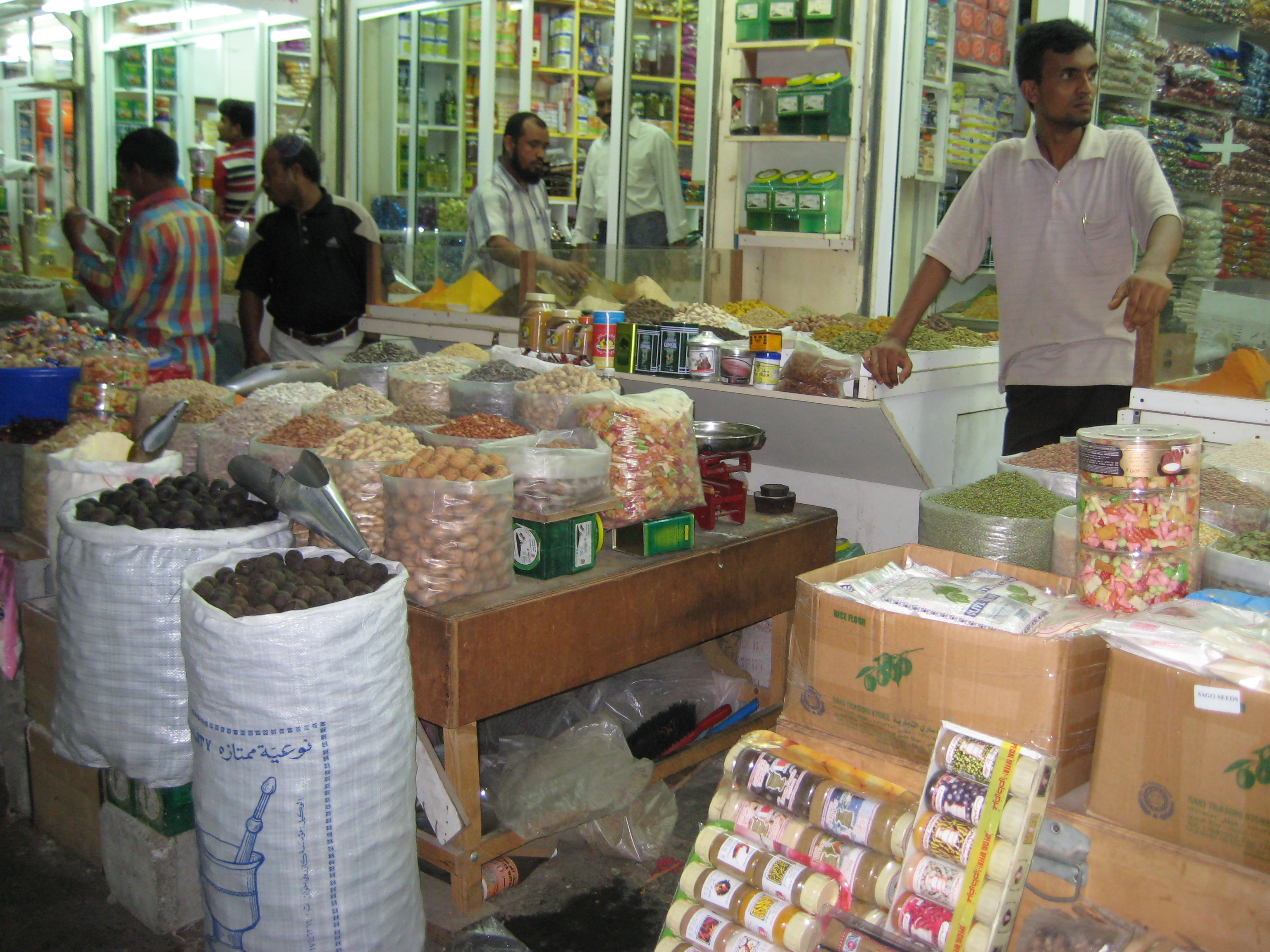 Bahrain Manama Souk - A purveyor of sweets and spices